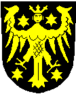 Coat of arms of the east frisian house of Cirksena.